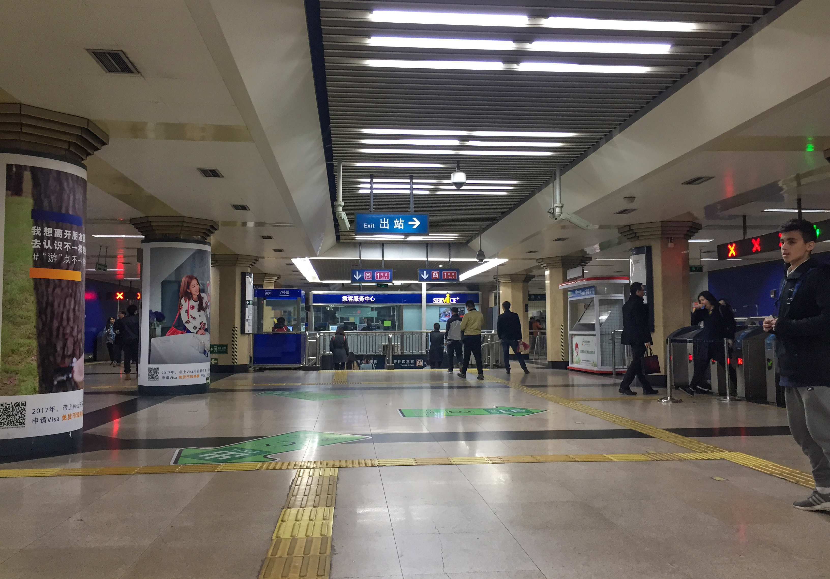 Foreign passenger flow can't be ignored.